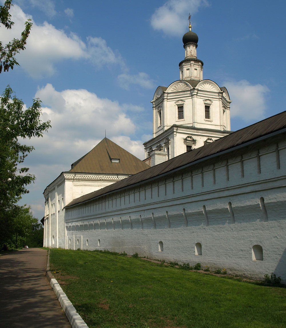 Andronikov Monastery, Moscow.